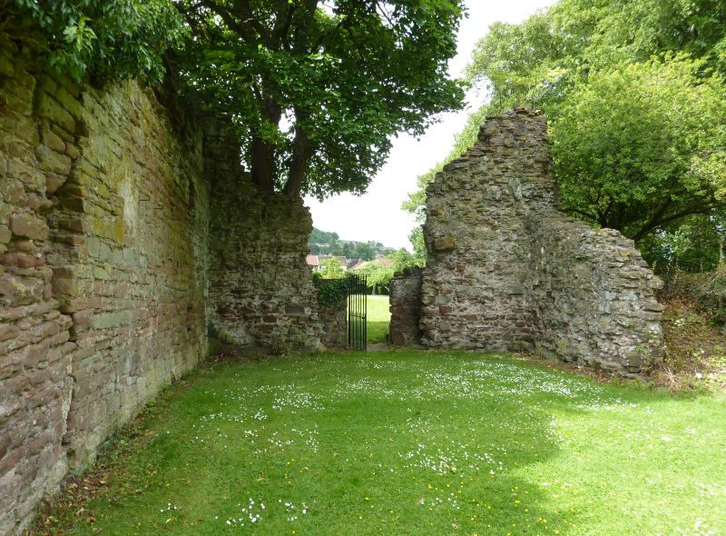 Lindores Abbey, near Newburgh, Fife, Scotland